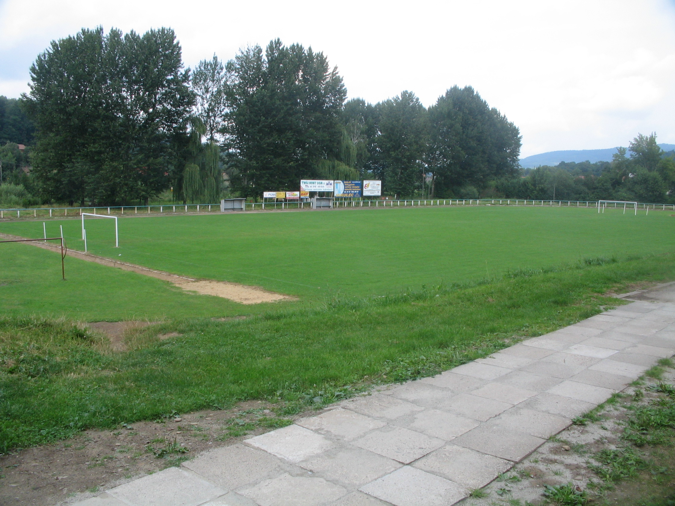 Playing field of Grybovia